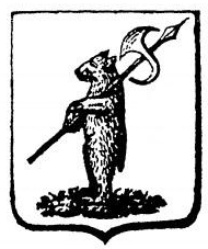 Coat of arms of Yaroslavl